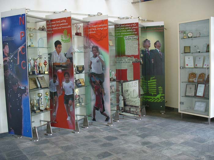 The Awards Gallery of Gan Eng Seng School at 1 Henderson Road, Singapore.